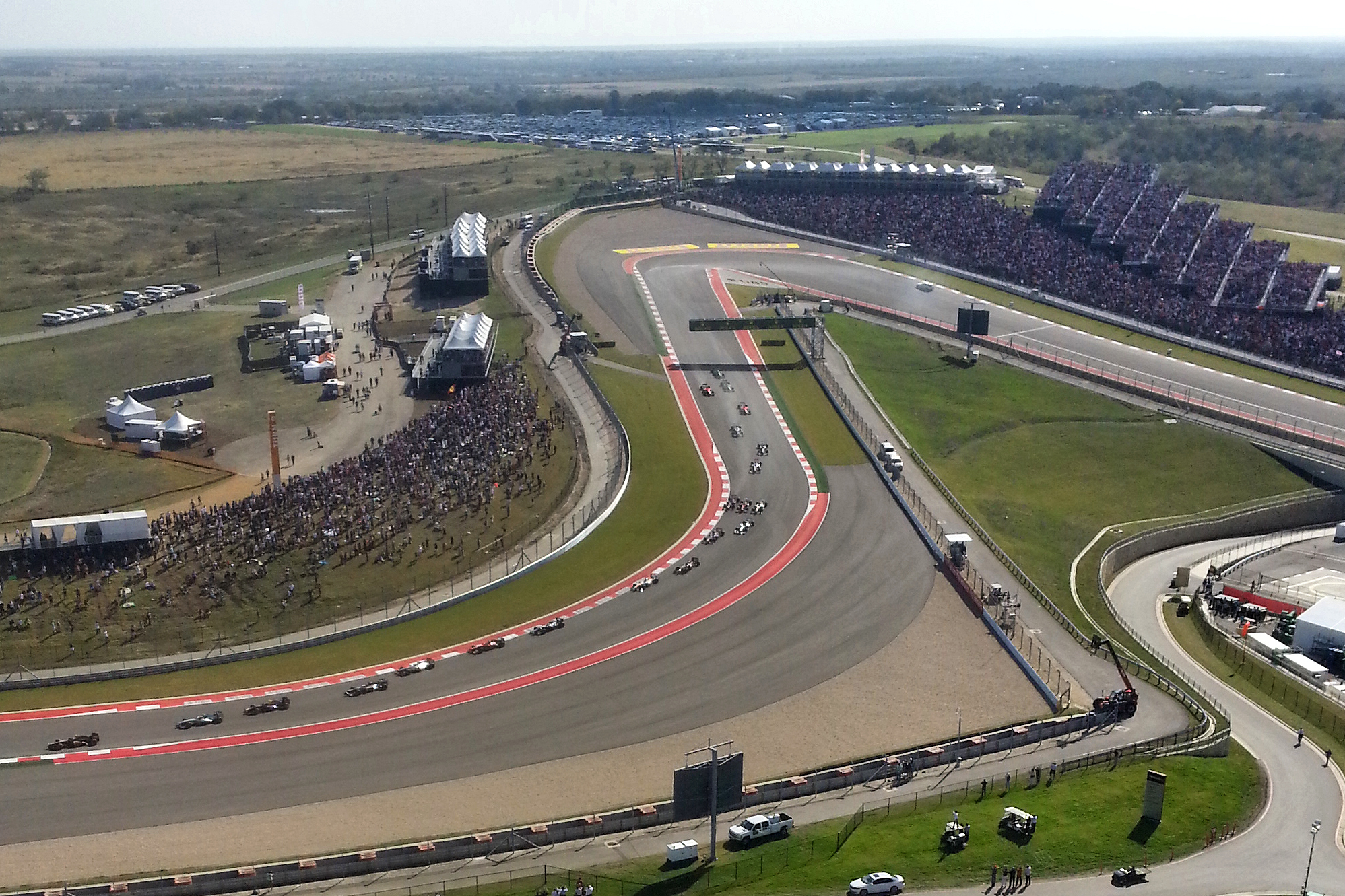 The field of the 2013 United States Grand Prix in turn 2 at Circuit of the Americas near Austin, Texas, United States.